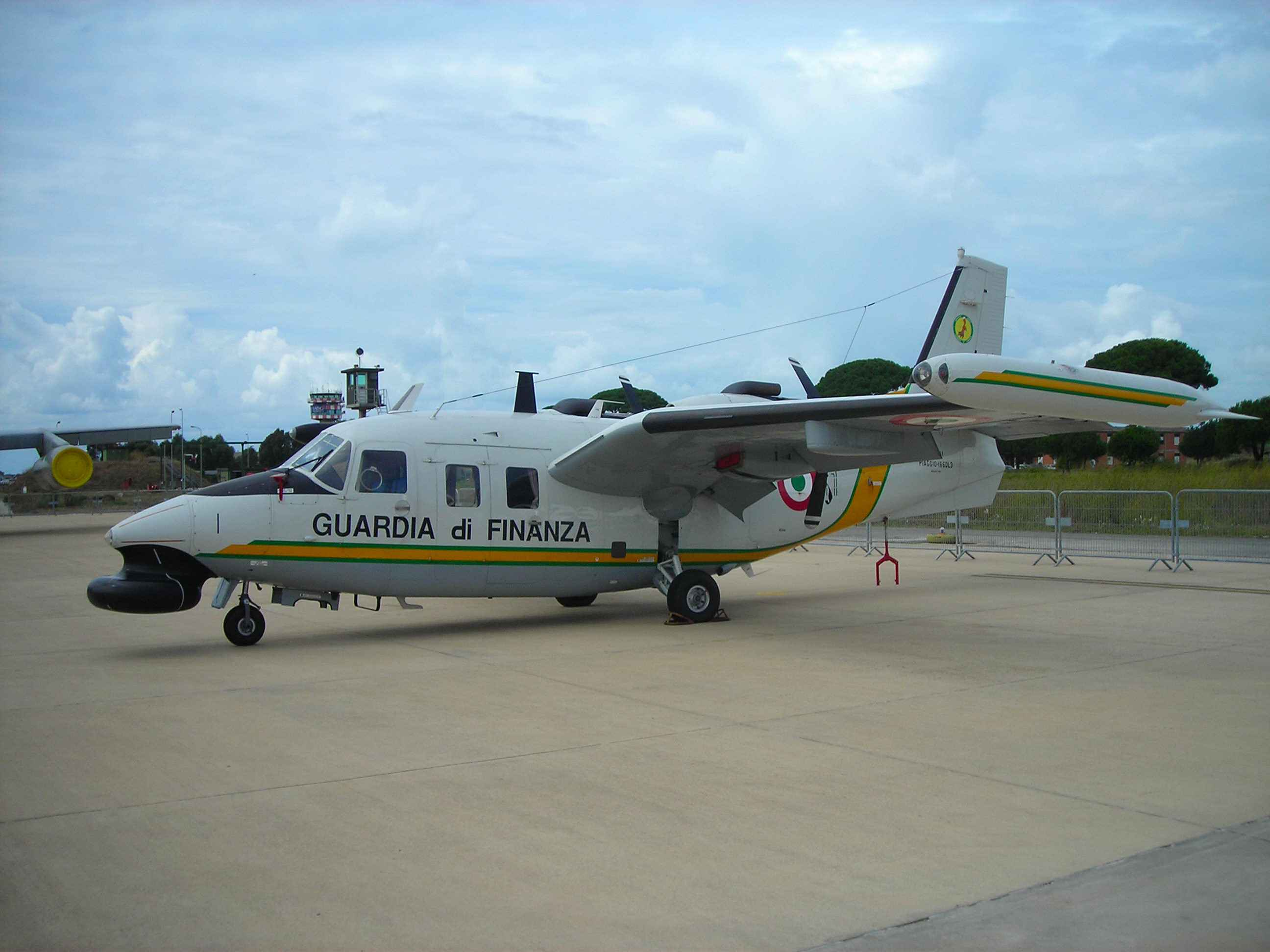 It is a Piaggio P.166 used by Guardia di Finanza. Picture taken during "Giornata Azzurra" 2006 (Italian Air Force airshow) at Pratica di Mare AFB, Italy.